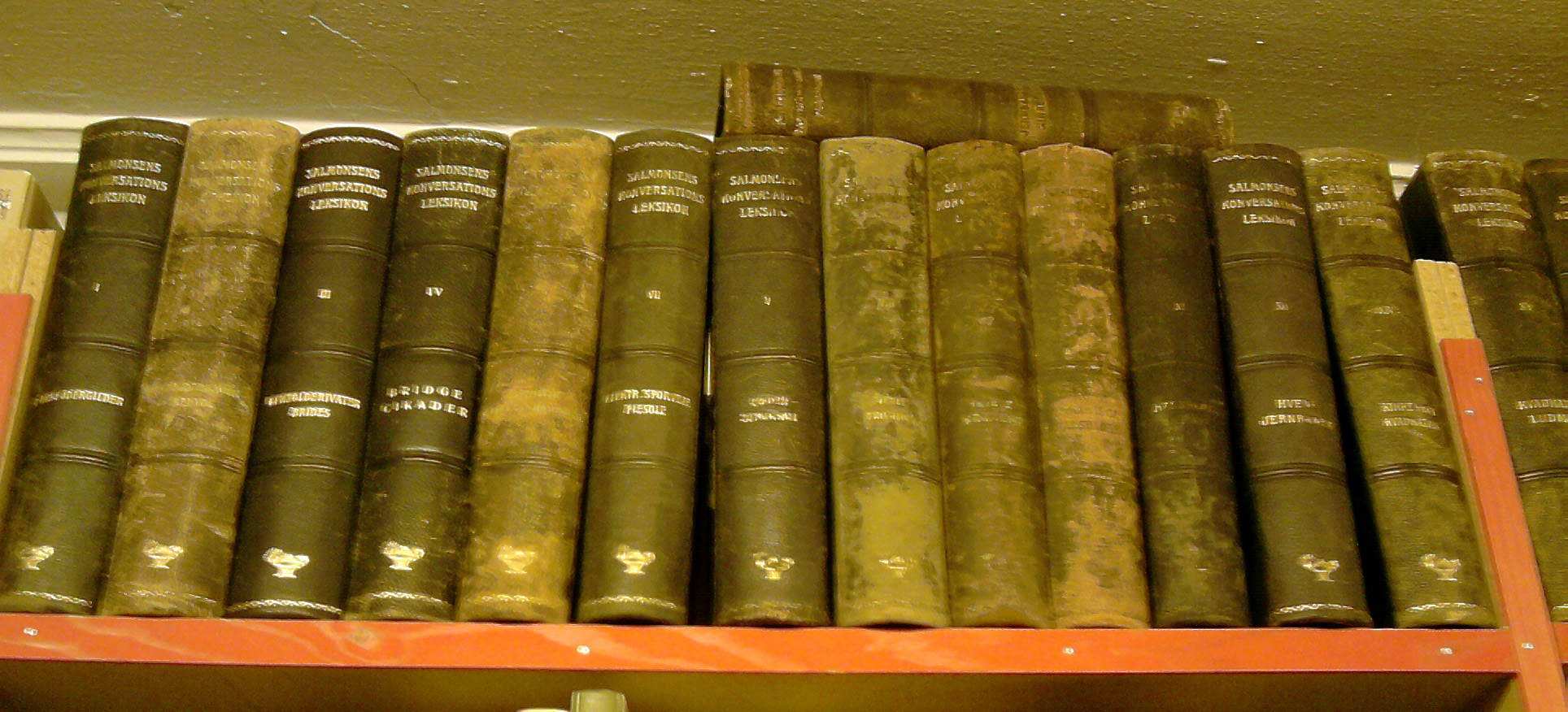 Halvdelen af Salmonsens Konversationsleksikon på en boghylde.